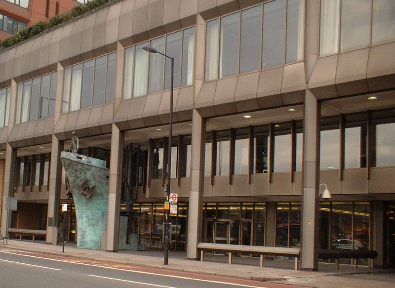 HQ of the International Maritime Organisation, Albert Embankment, London. Taken by C Ford 6th March 04.